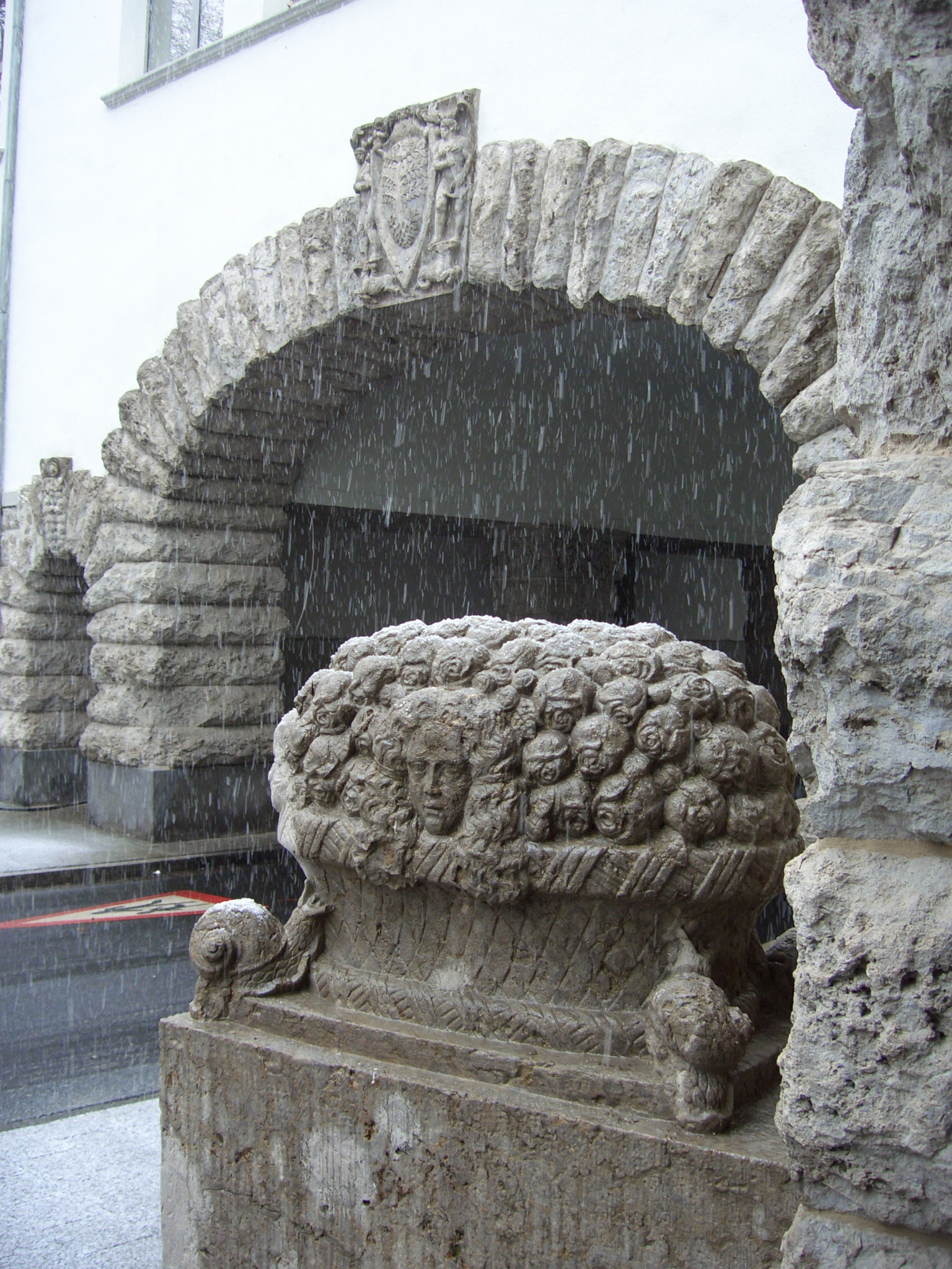 School of Art and Design in Offenbach, Germany (HfG Offenbach). Detail at the entrance of the main building, designed by Hugo Eberhardt. Photo: Christos Vittoratos